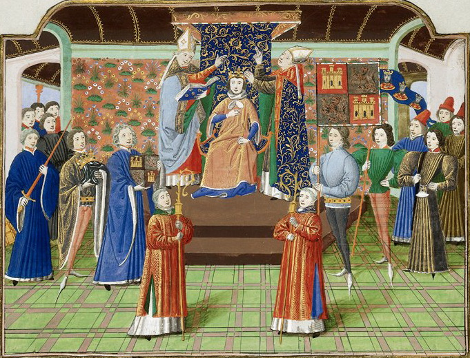 Coronation of Henry II, King of Castile. (British Library, Harley 4379 f. 112v)